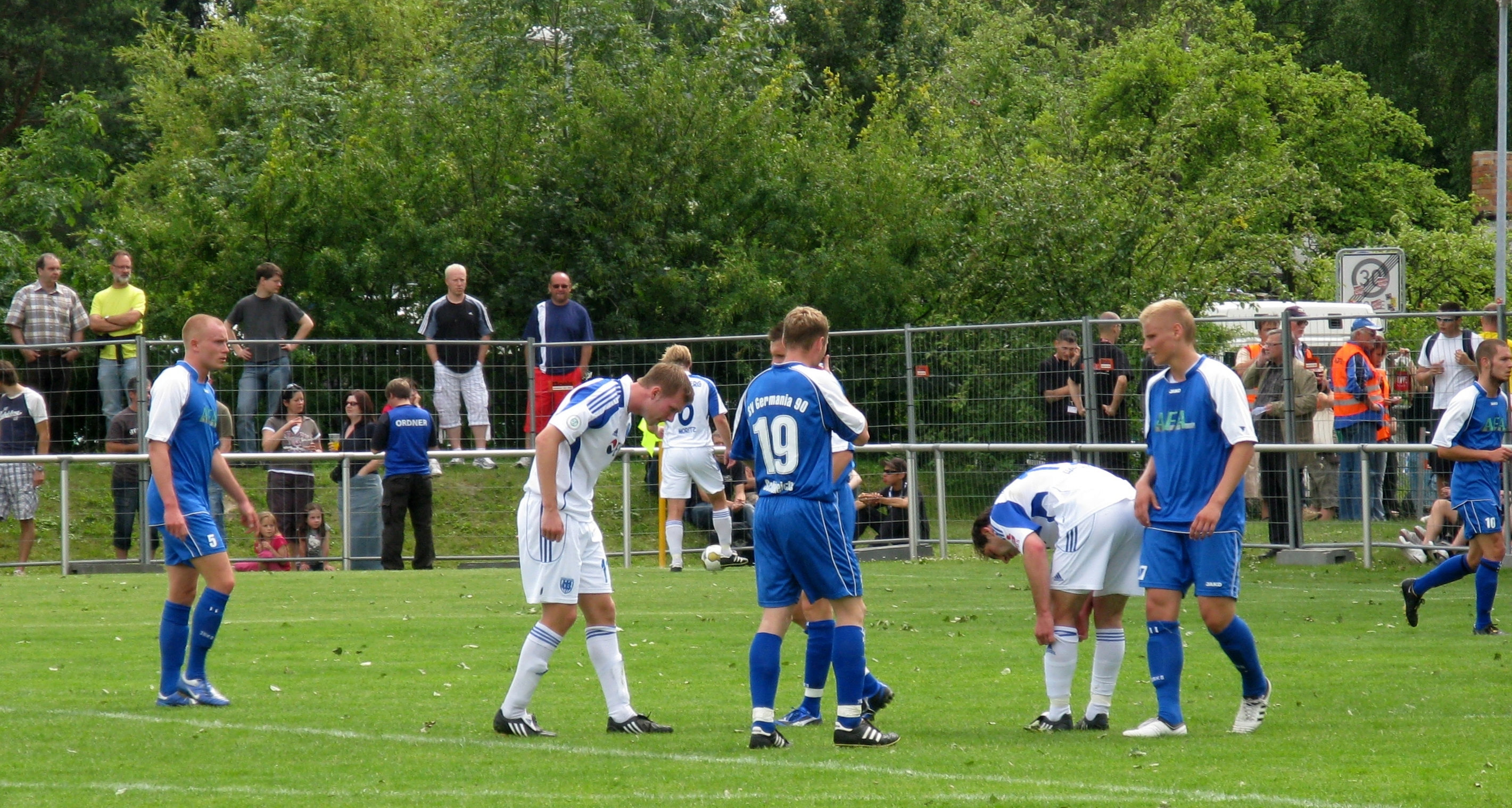 Regional Cup-final of Land Brandenburg on 14th June 2009 in Schöneiche near Berlin; Germania 90 Schöneiche - SV Babelsberg 03 (0-1); Schöneiche in Blue, Babelsberg in White